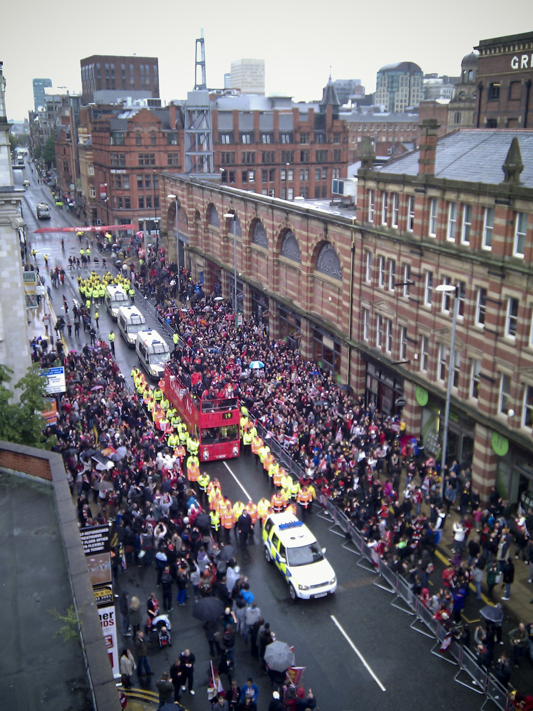 A photograph of the Manchester United FC team on their open-top bus parade through Manchester city centre on 30 May 2011